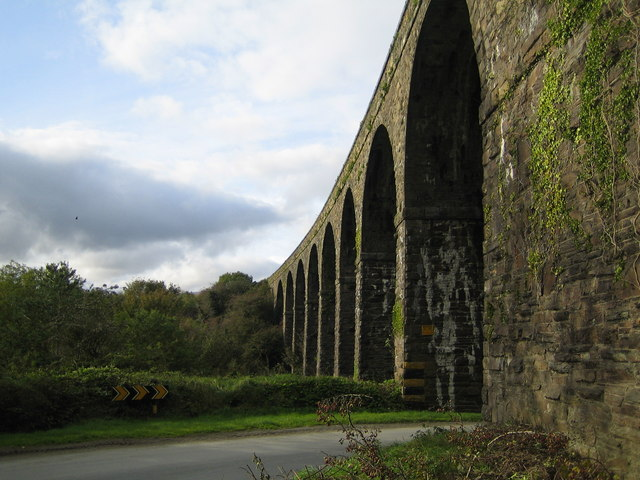 Coill Mhic Thomáisín (Kilmacthomas): Railway viaduct The construction of this fine 8-arched curved viaduct to carry the Waterford to Cork railway over the River Mahon was completed in 1878. The railway line closed in 1982.